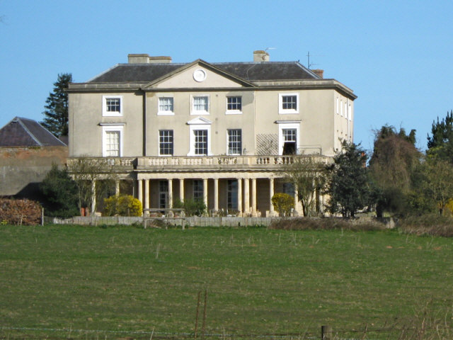 Walford House A late Georgian mansion now used as apartments.